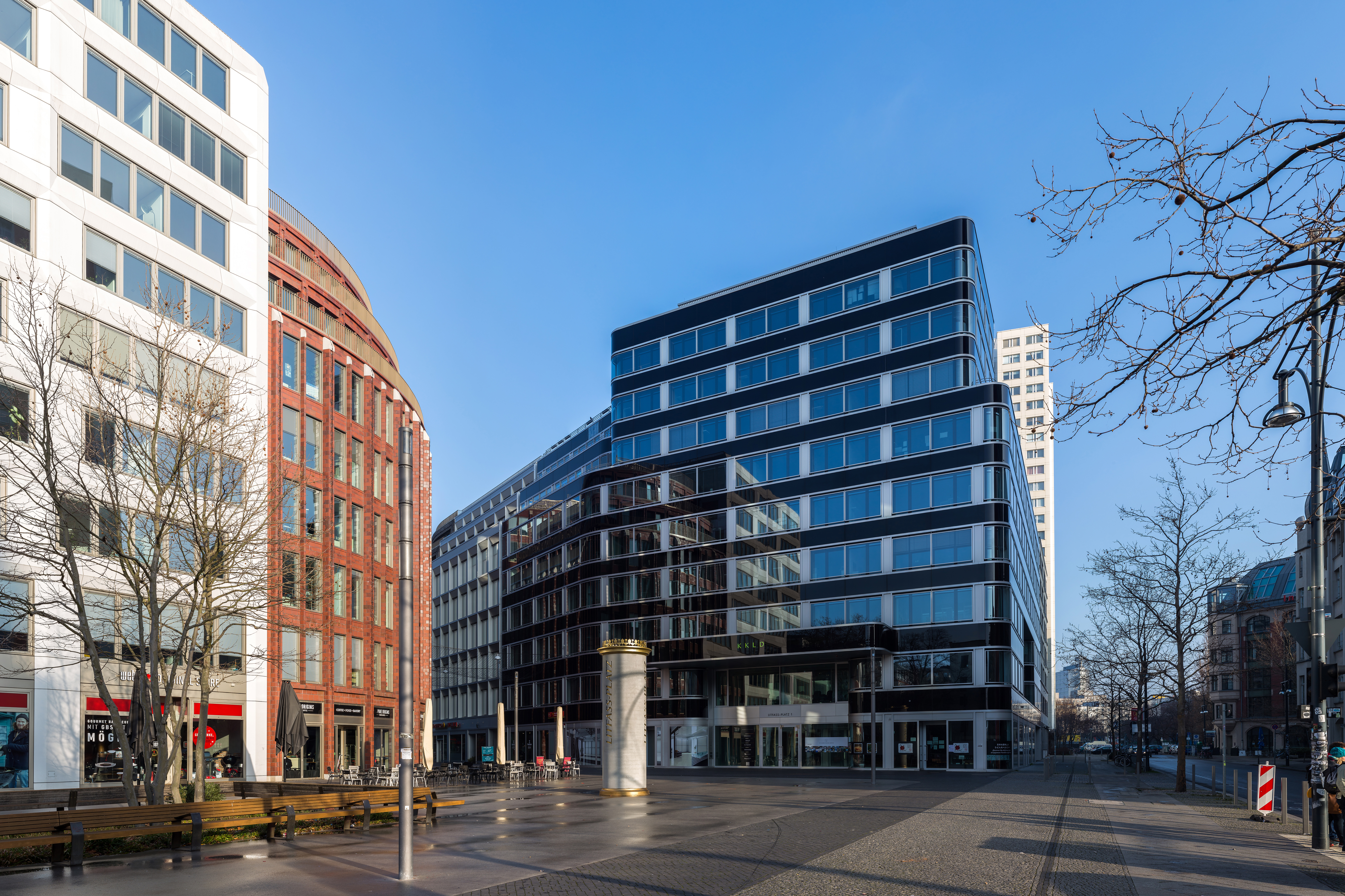 Office building Litfaß-Platz 1 in Berlin-Mitte.